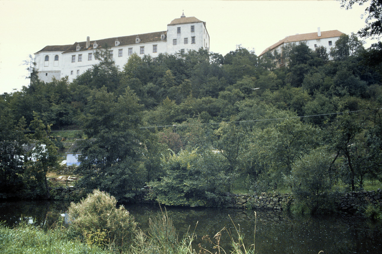 Castle of Jevisovice